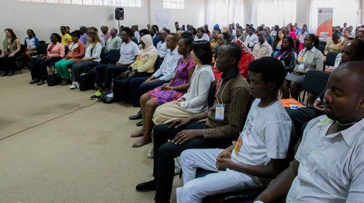 Peace Revolution summit in Africa